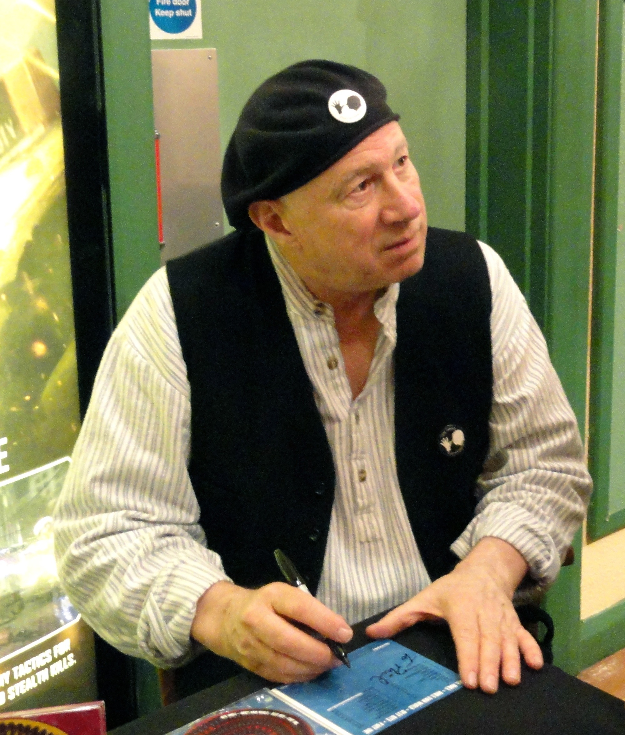 Neil Innes, British comedian, signing autographs